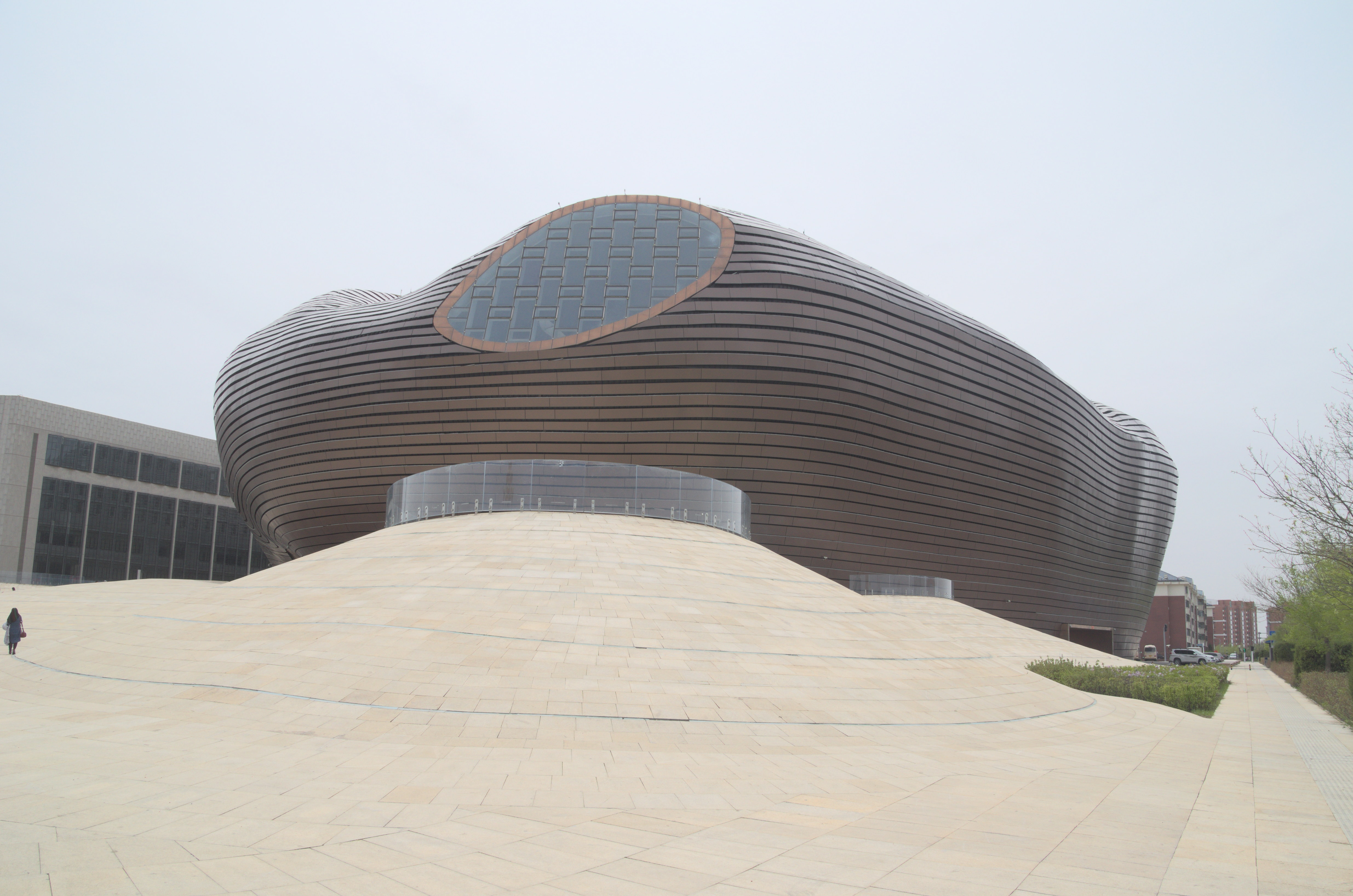 Ordos Museum (鄂尔多斯博物馆) in Ordos City, Inner Mongolia, People Republic of China.